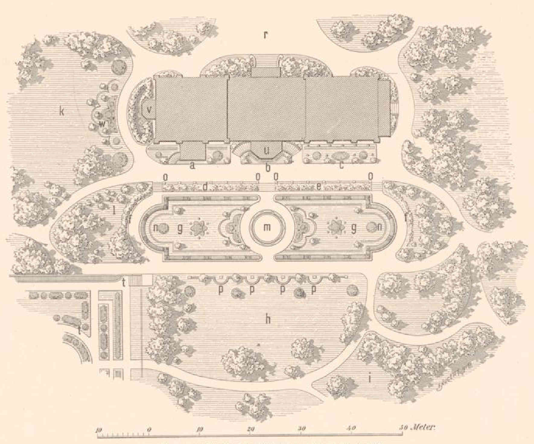 Plan der Parkanlage der Villa Monrepos